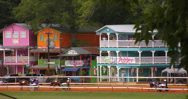 Horse racing at the Neshoba County Fair, 2010